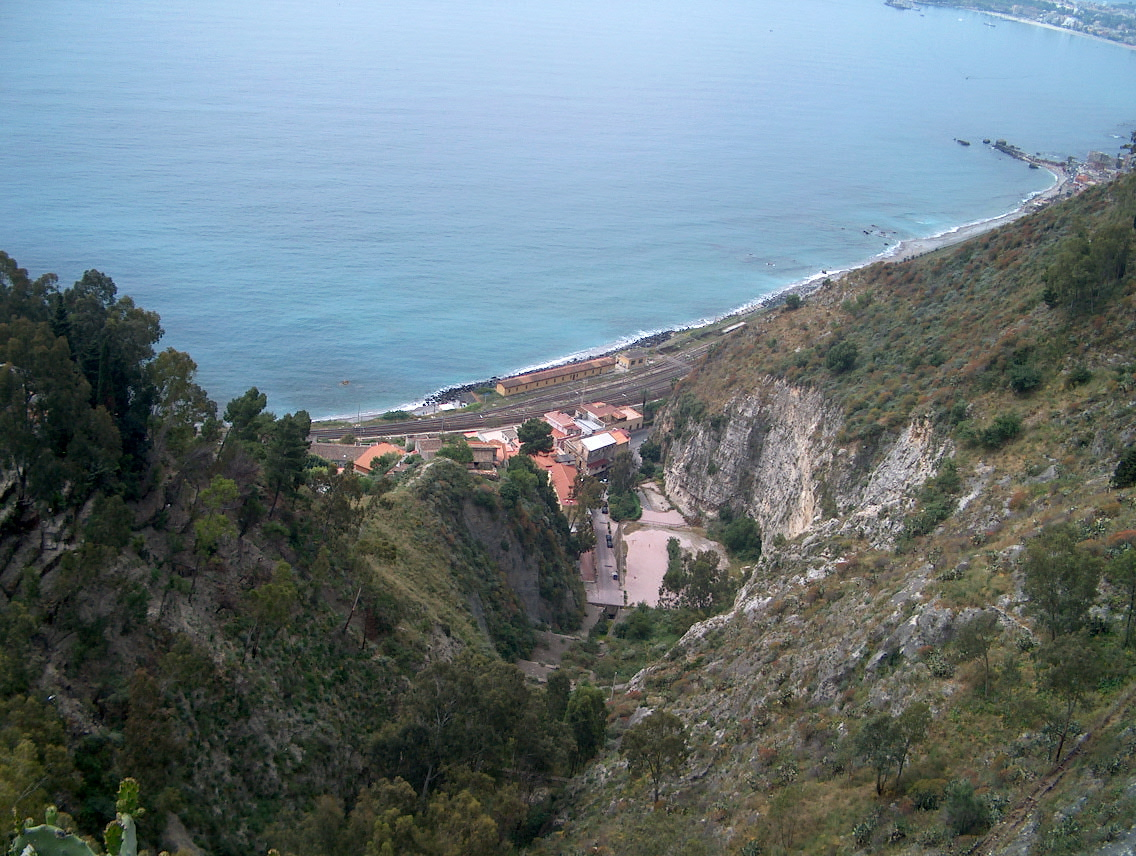 View of the Sicilian seashore from Taormina, Sicily. This picture is my own work from my visit to Calabria and Sicily on May 2005. I release this work to the public domain.